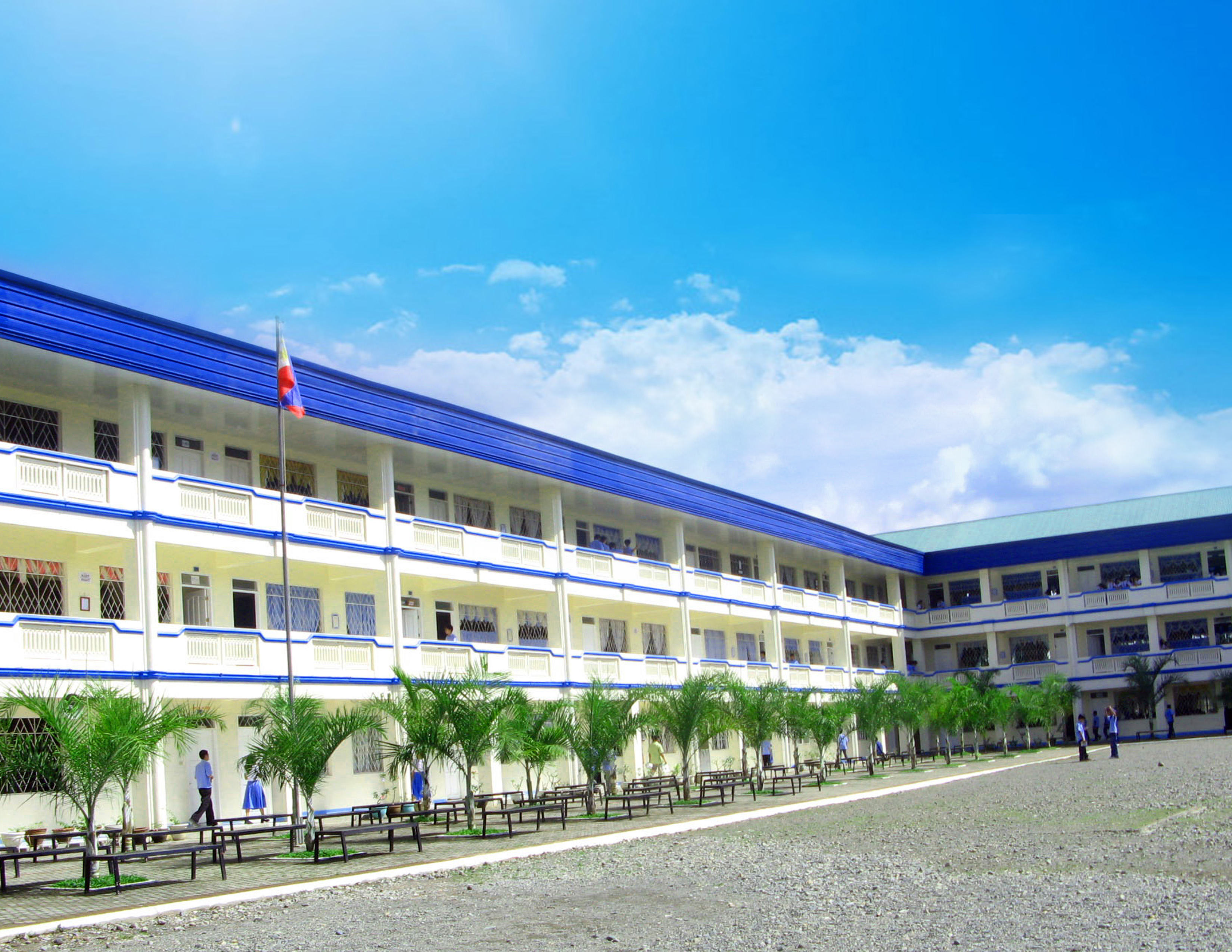 Tagum City National High School (TCNHS) new building, known as the "LGU Building" in official documents.